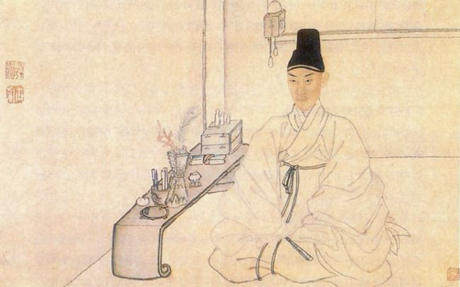 Kim, Hong-do's self-portrait.